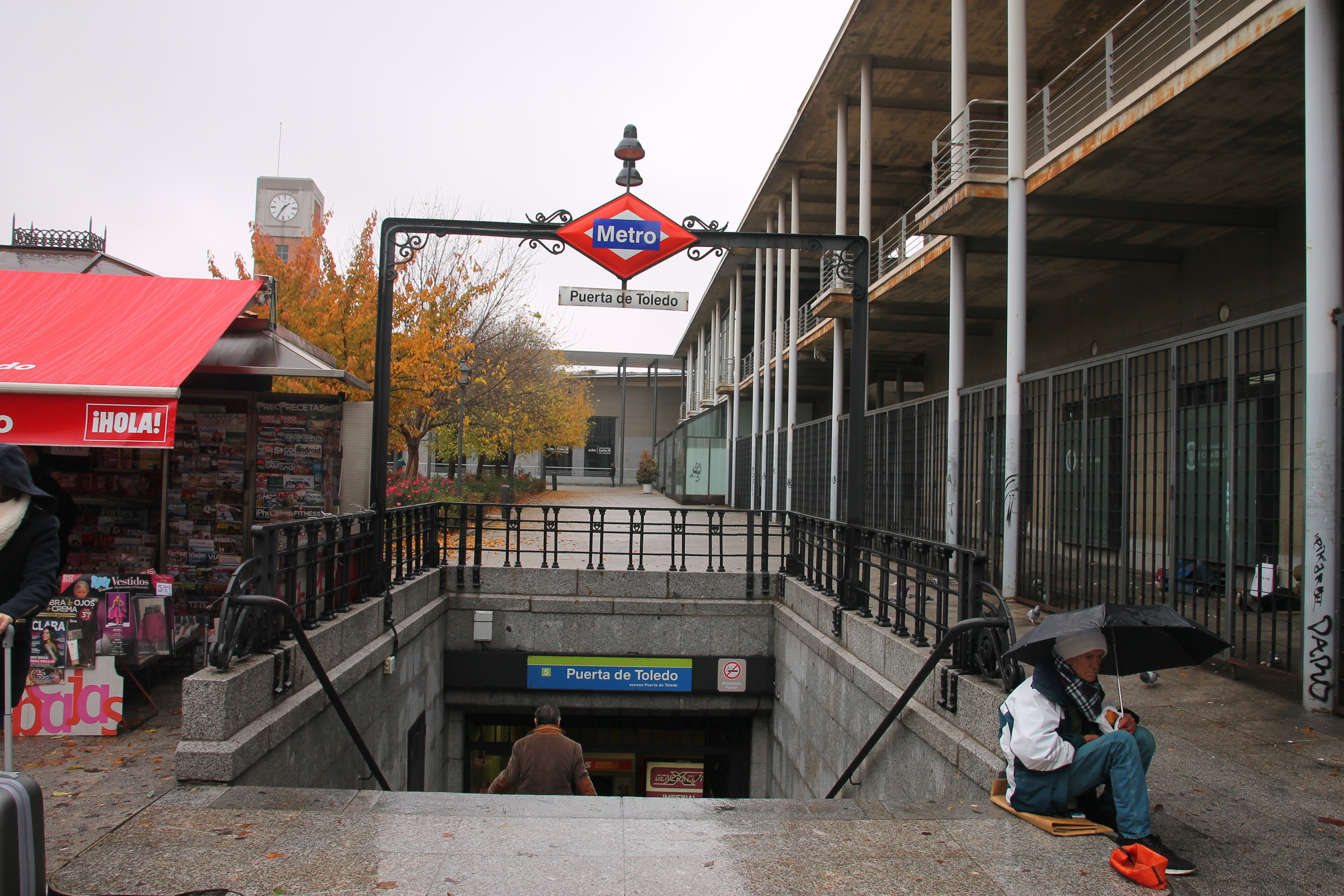 Estación de Puerta de Toledo